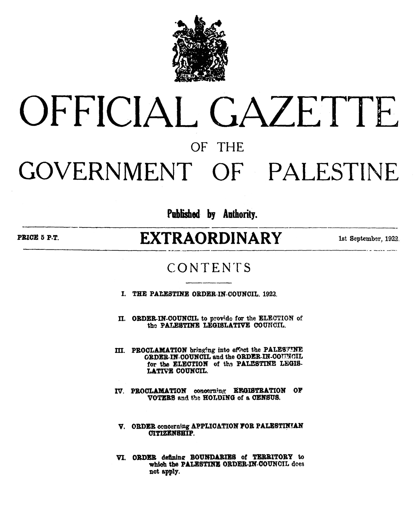 The Palestine Order-in-Council formed the constitution of the Palestine Mandate. This image shows the cover page of the special issue of the official Gazette in which it was first published.